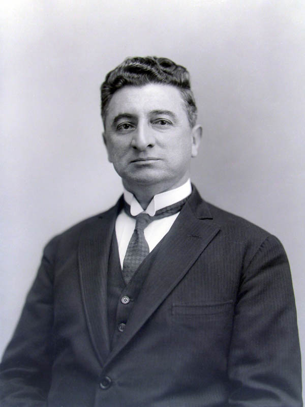 Self portrait of Carlos Ladislao Bustos, grandfather of the author of this digital version